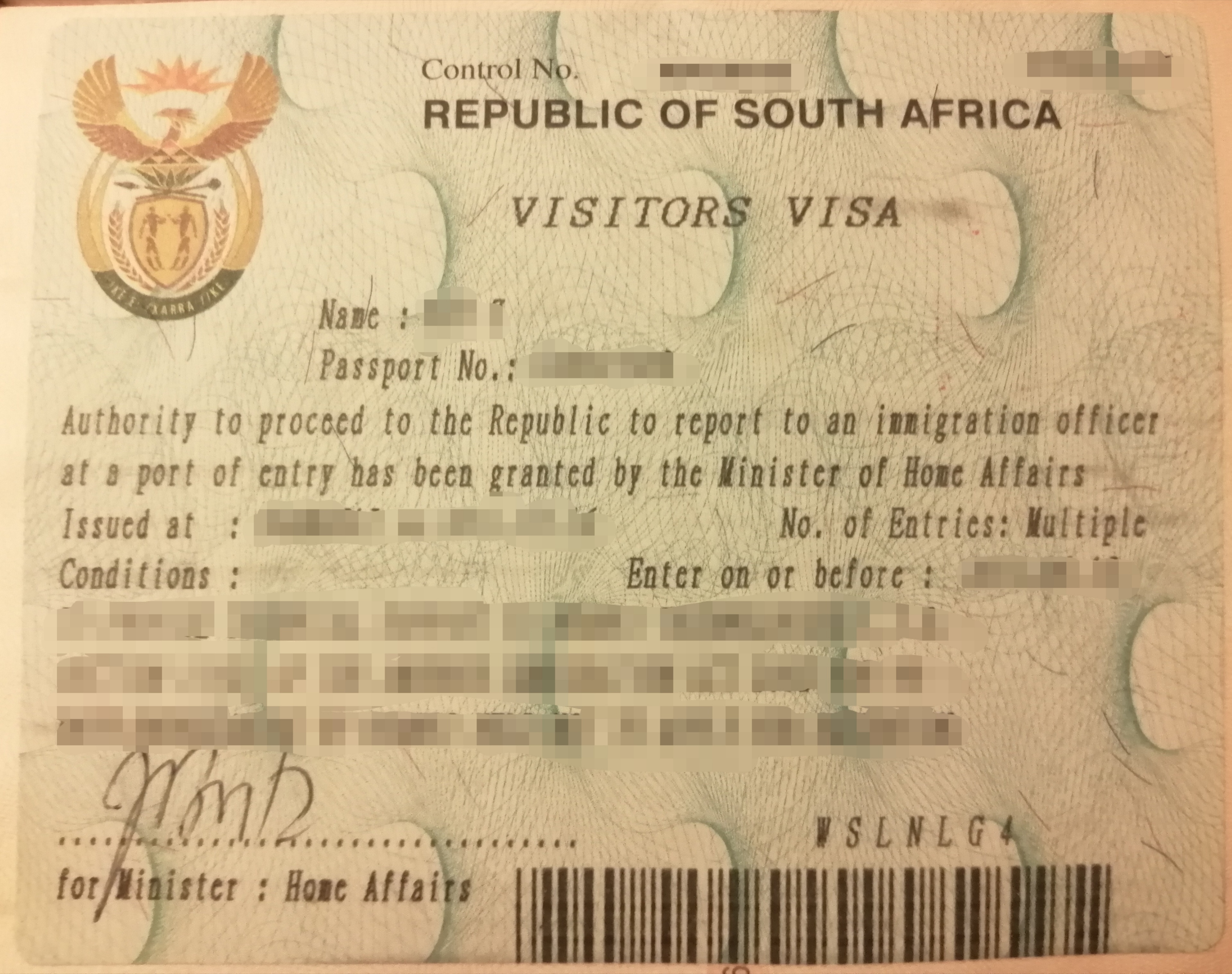 Multiple Visa to South Africa issued in 2011